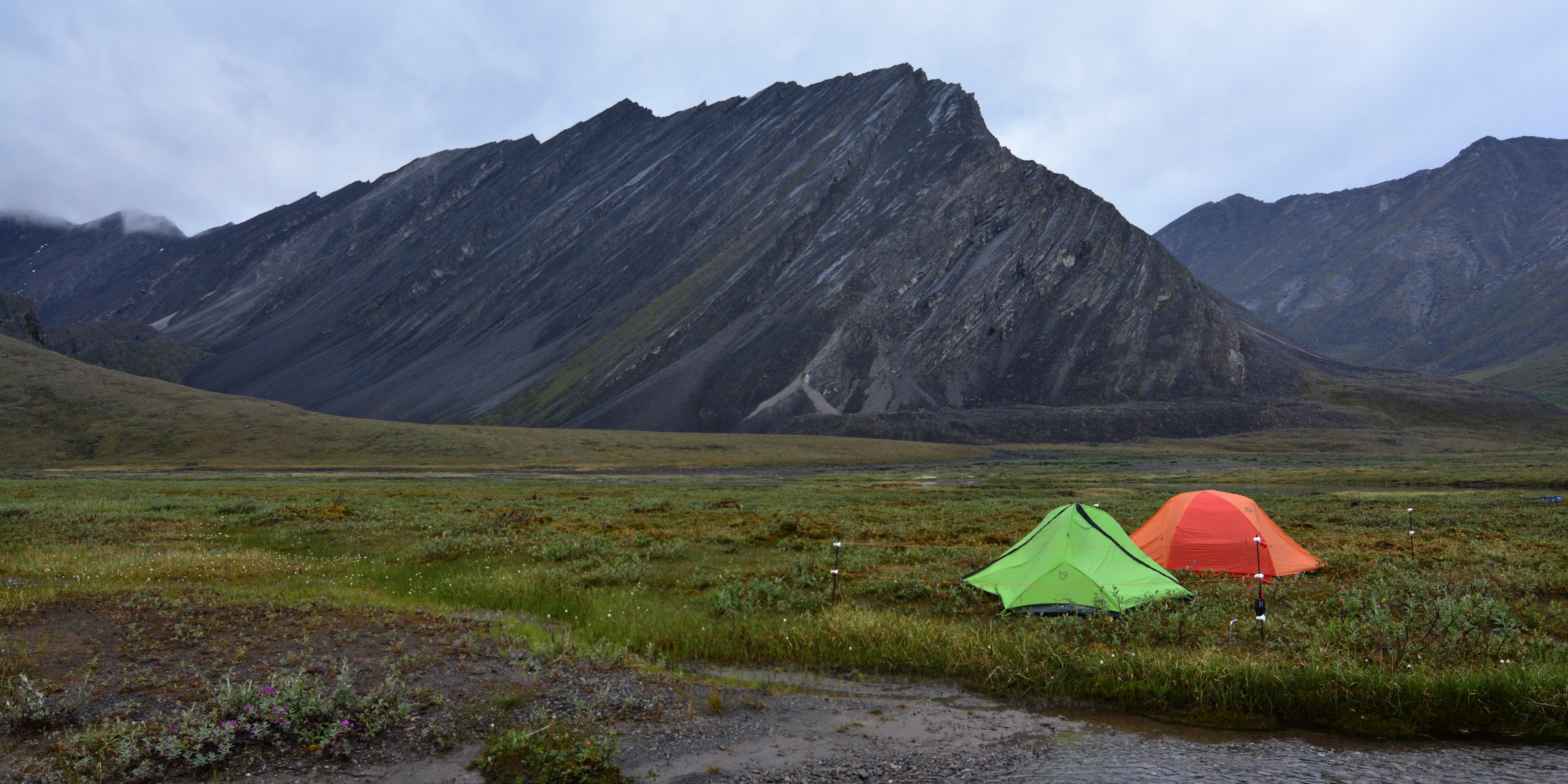 Backpackers tents in a subarctic valley, jagged rock formation in background